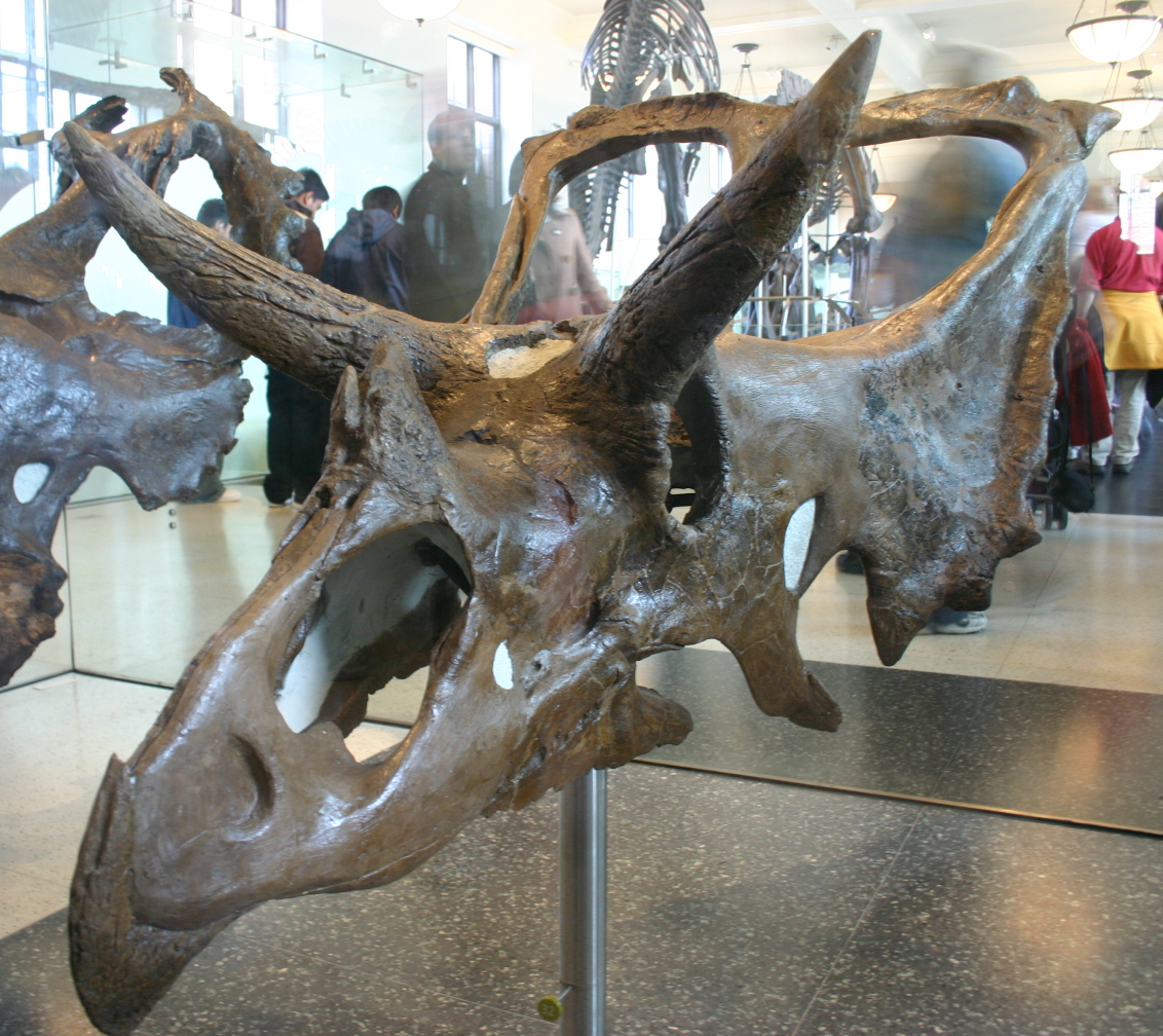 AMNH 5401, a skull previously referred to Chasmosaurus kaiseni, now redescribed as a specimen of Mojoceratops.